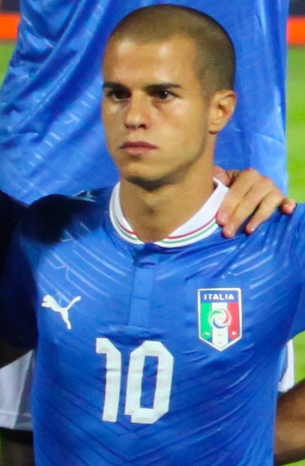 Sebastian Giovinco before the football game with Bulgaria, "Vasil Levski" stadium, Sofia, Bulgaria, September 7, 2012